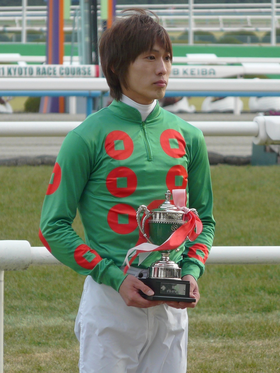 Kouta-Fujioka20110129